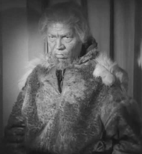 Ioakim Maksimov-Koshkinskiy as Filipp Ivanych Iliashev in Diamonds (1947)